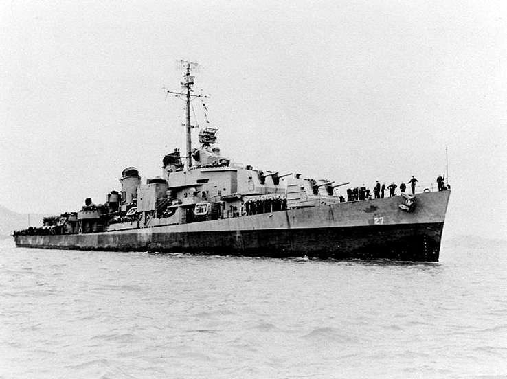 The U.S. Navy destroyer minelayer USS Adams (DM-27) off San Francisco, California (USA), on 2 May 1945.